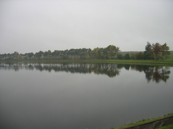 Whittle Dene West Reservoir